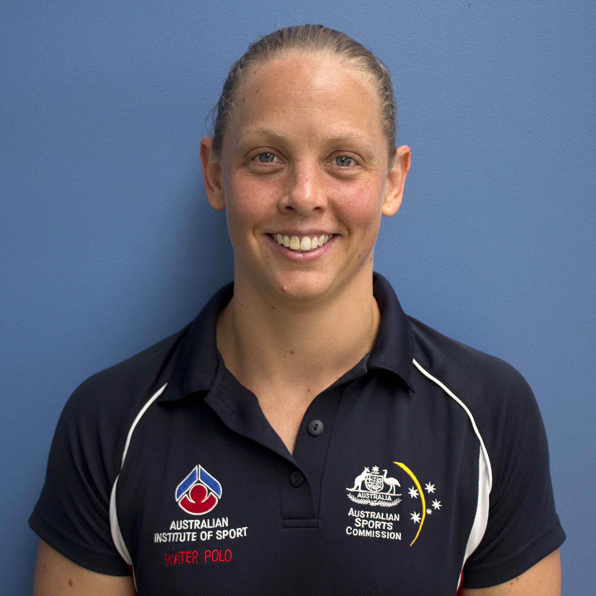 A portrait of Kate Gynther Australian women's national water polo player.